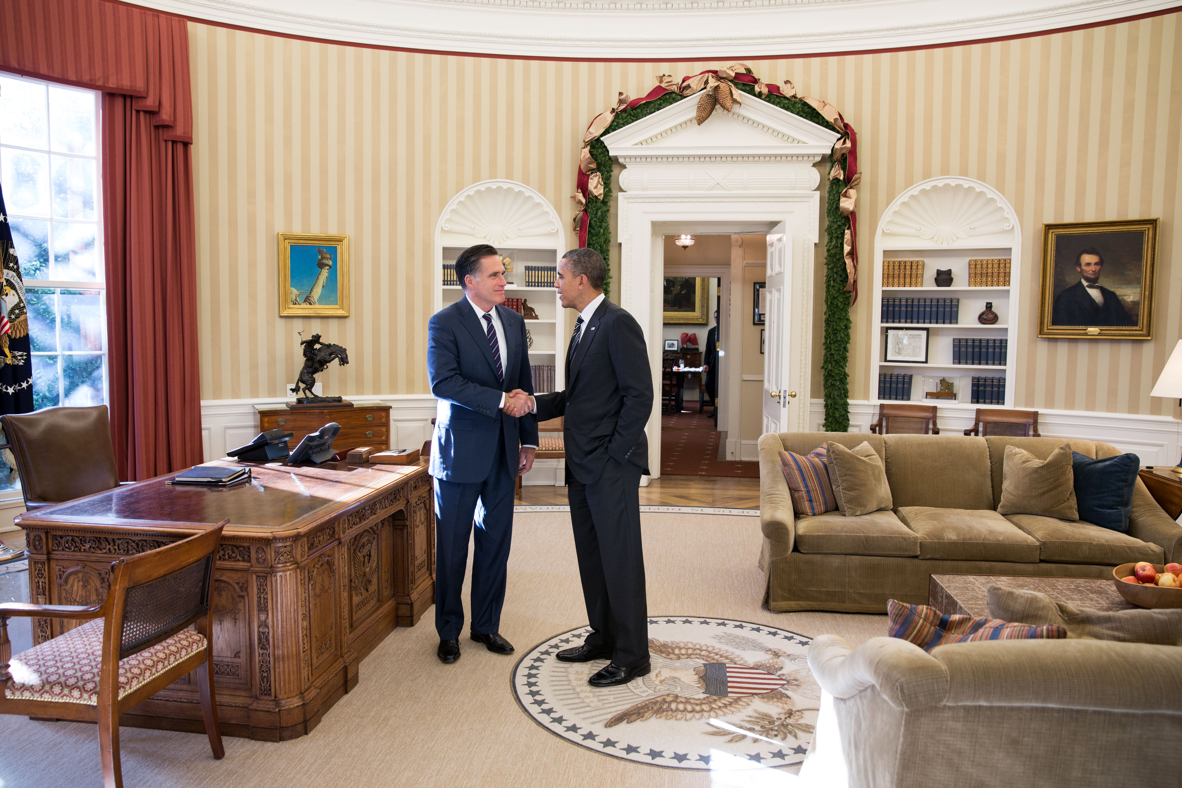 United States President Barack Obama and former Massachusetts Governor Mitt Romney talk in the Oval Office following their lunch on 29 November 2012.